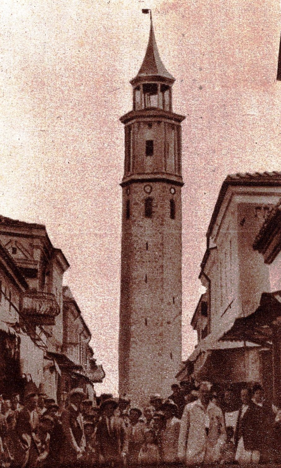 Postcard of Prilep, Clock Tower, from 1920's This media file is produced by Wikipedian in Residence in Category:Wikipedian in Residence at DARM in 2016.